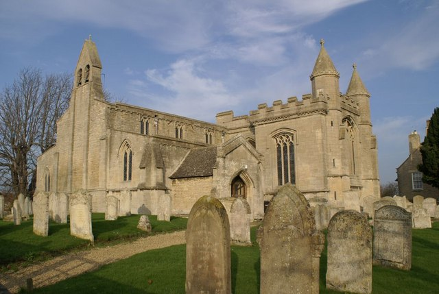 Northborough's historic St Andrews Church, near to Northborough, Peterborough, Great Britain. The small village church dominated by the large de la Mare Chancery added on about 1350